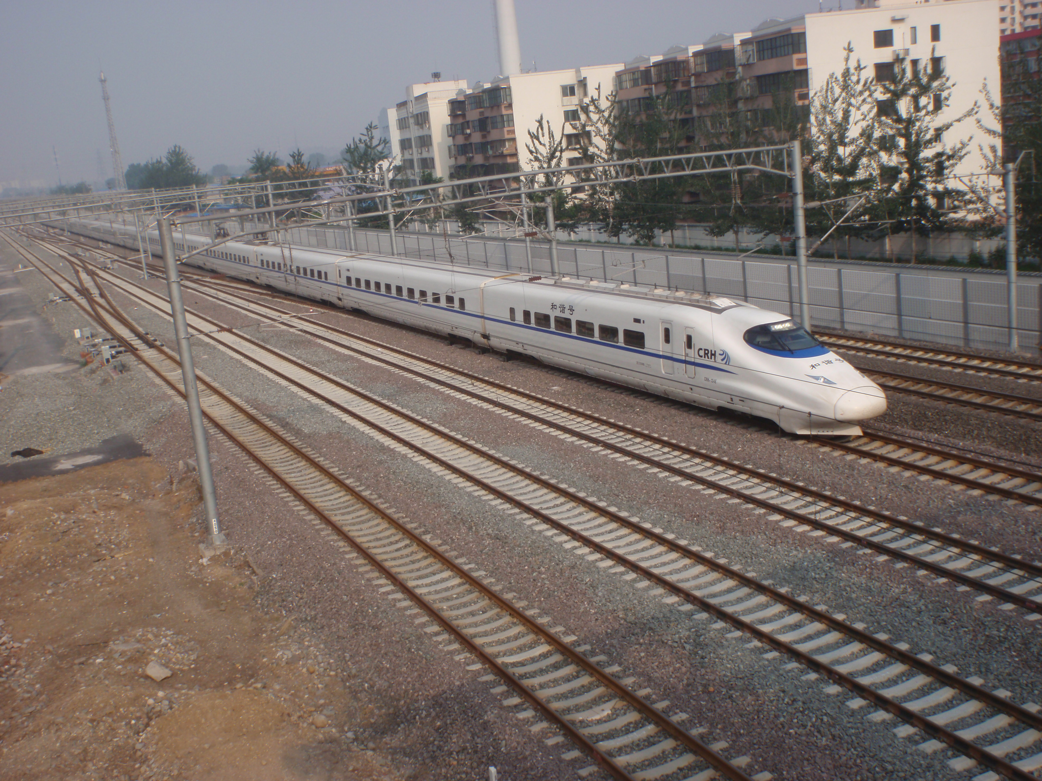 CRH2E sleeper EMU, Ministry of Railway, China.